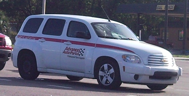 2006-2010 Chevrolet HHR Advance Auto Parts photographed in Orlando, Florida, USA.